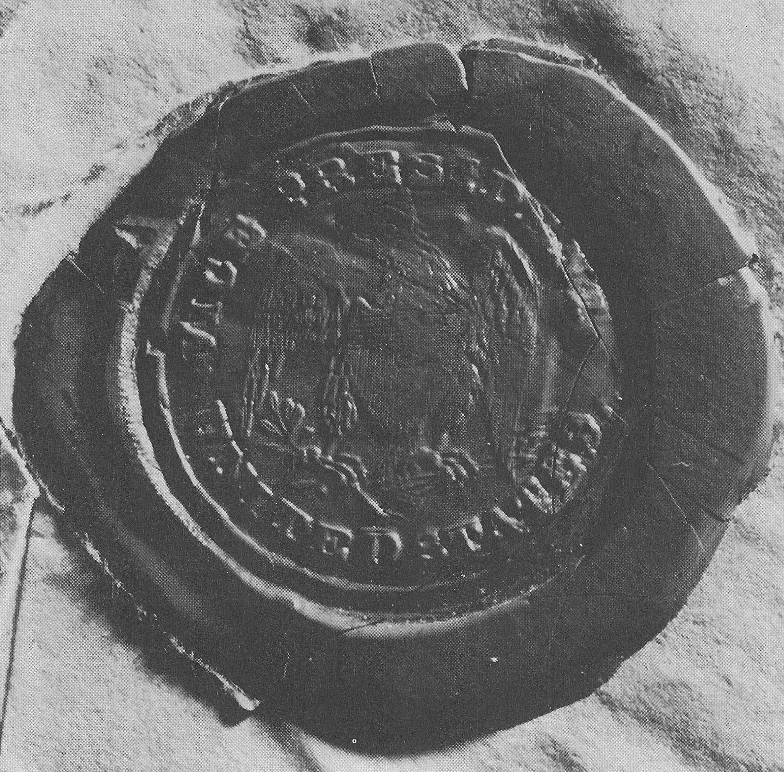 Impression of the Seal of the Vice President of the United States in red wax, as seen on an envelope on a letter from January 26, 1850. The letter was from Vice President Millard Fillmore to Senator Thomas J. Rusk, Chairman of the Senate Committee on Post Offices and Post Roads, concerning the nomination of Isaac Harrington as postmaster at Buffalo.